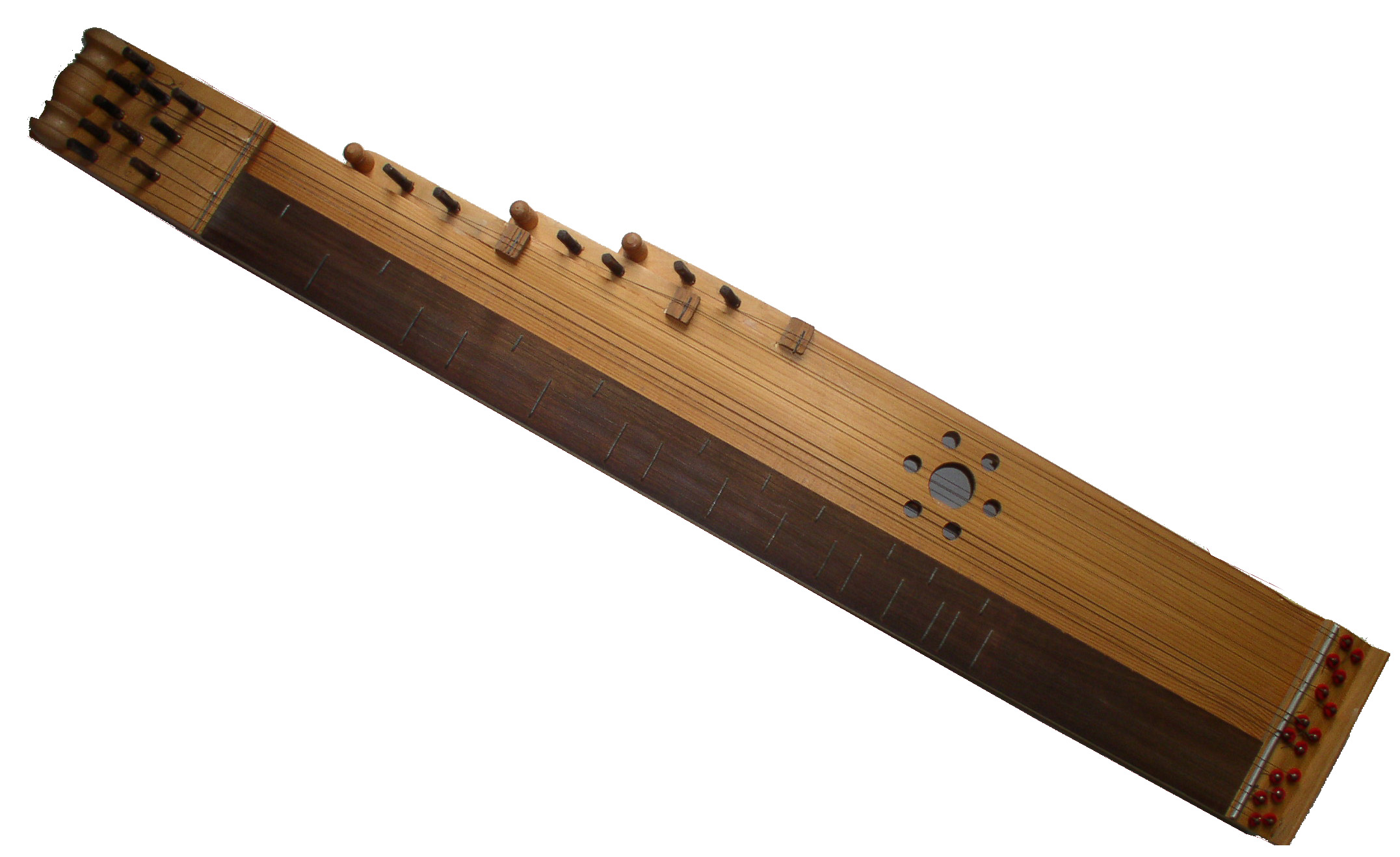 Hungarian Cither own photo